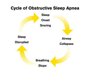 The Cycle of Obstructive Sleep Apnea - OSA